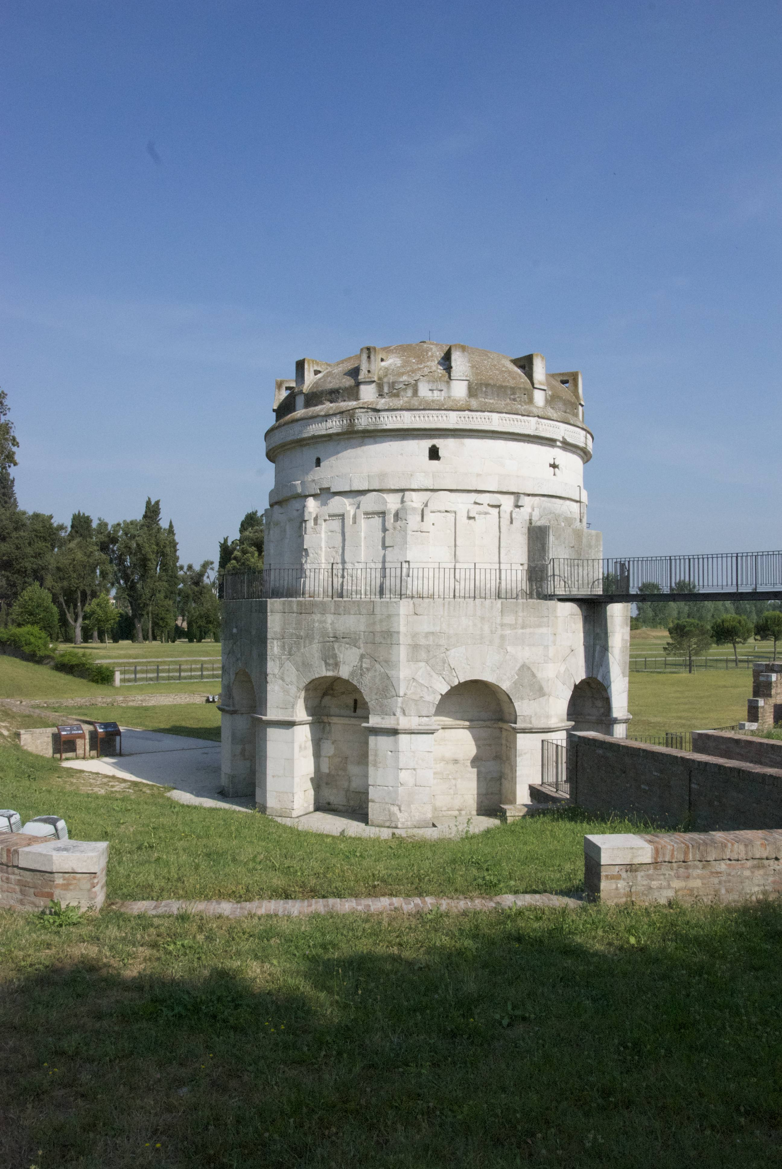 Mausoleum of Theodoric, Ravenna, Italy